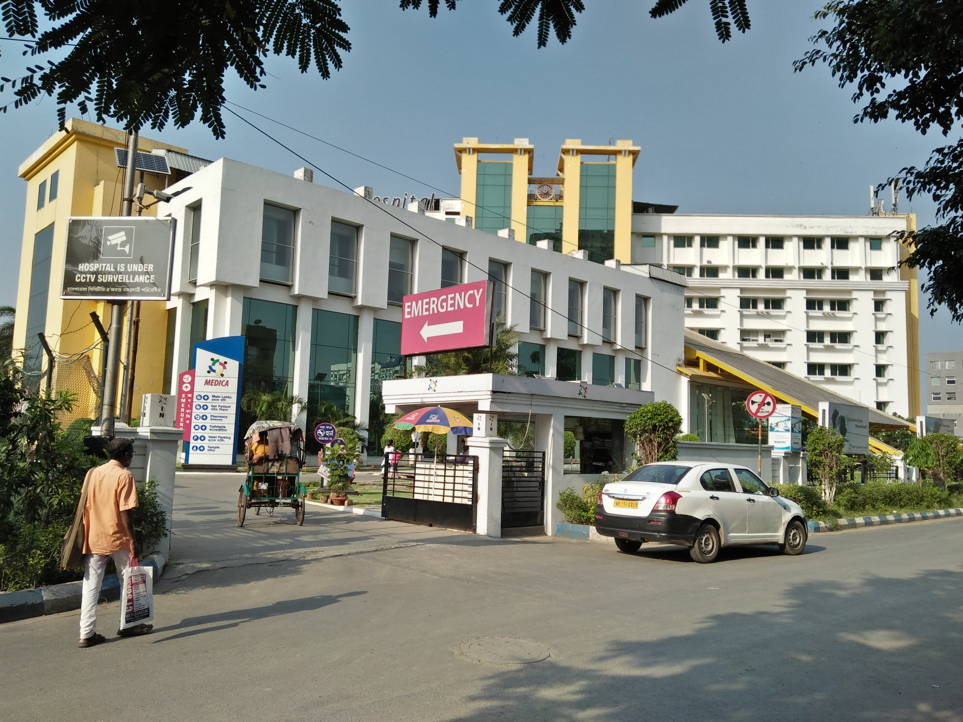 Photographed in Greater Kolkata.